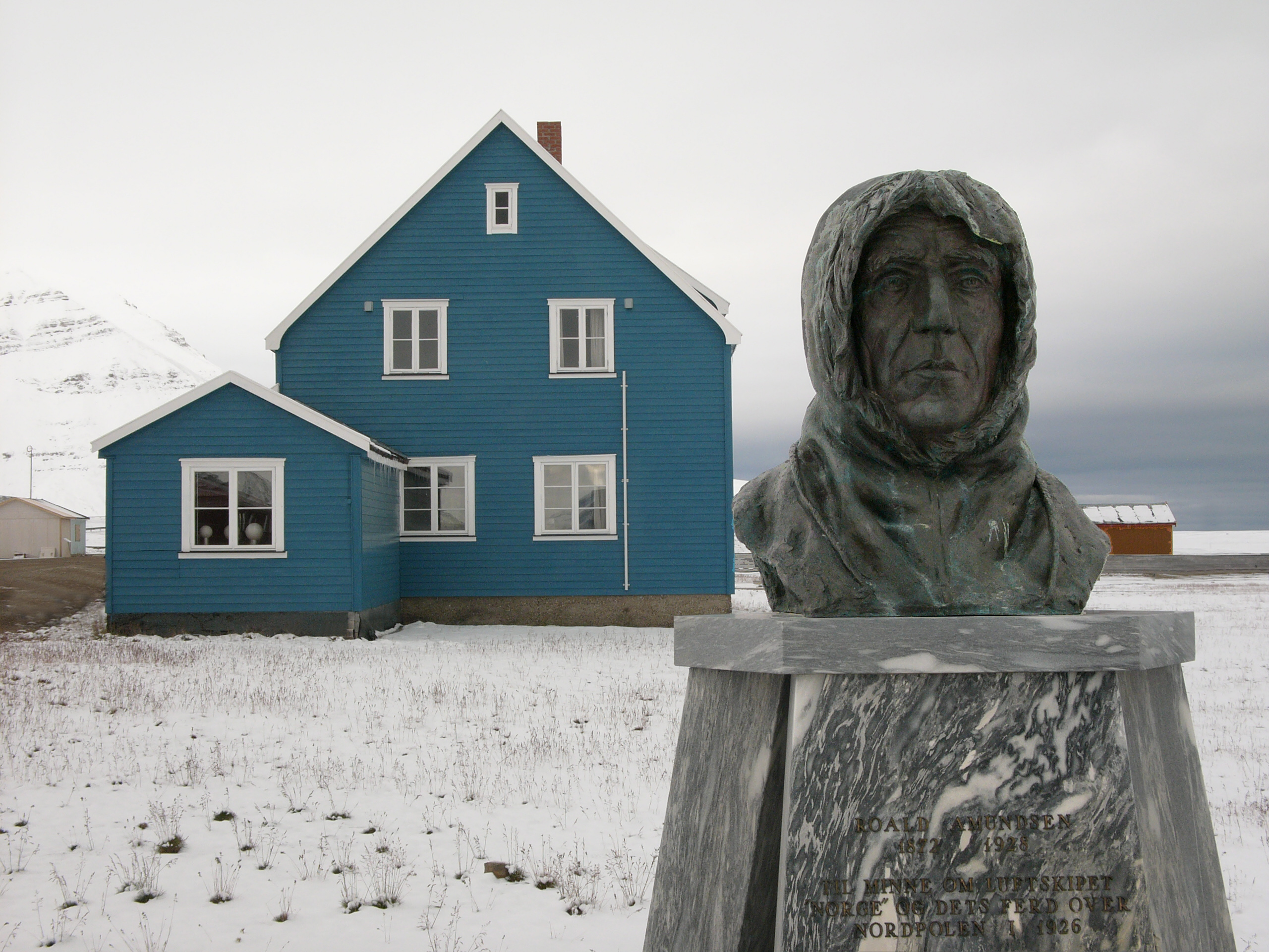 AWIPEV research station of the Alfred Wegener Institute in Ny Alesund on Spitzbergen; Amundsen memorial in the foreground.